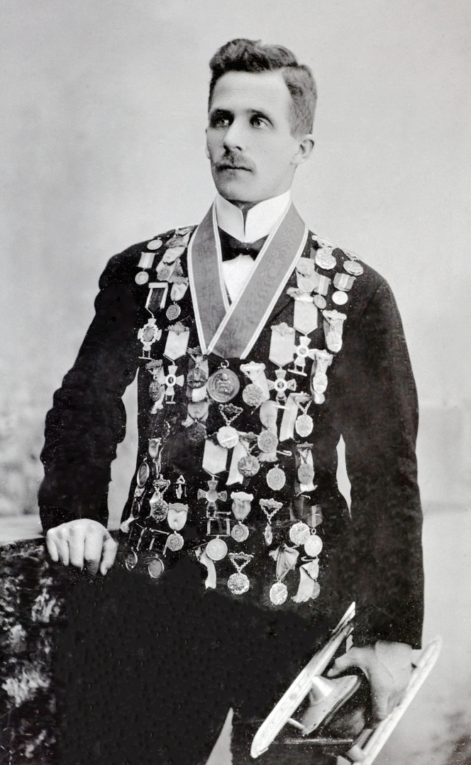 Norwegian speedskater Peter Sinnerud